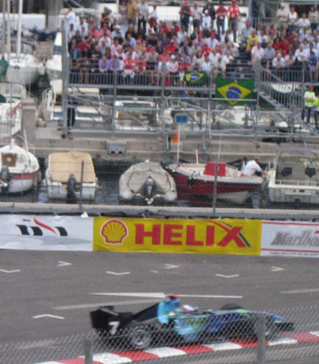 Button at Monaco Grand Prix